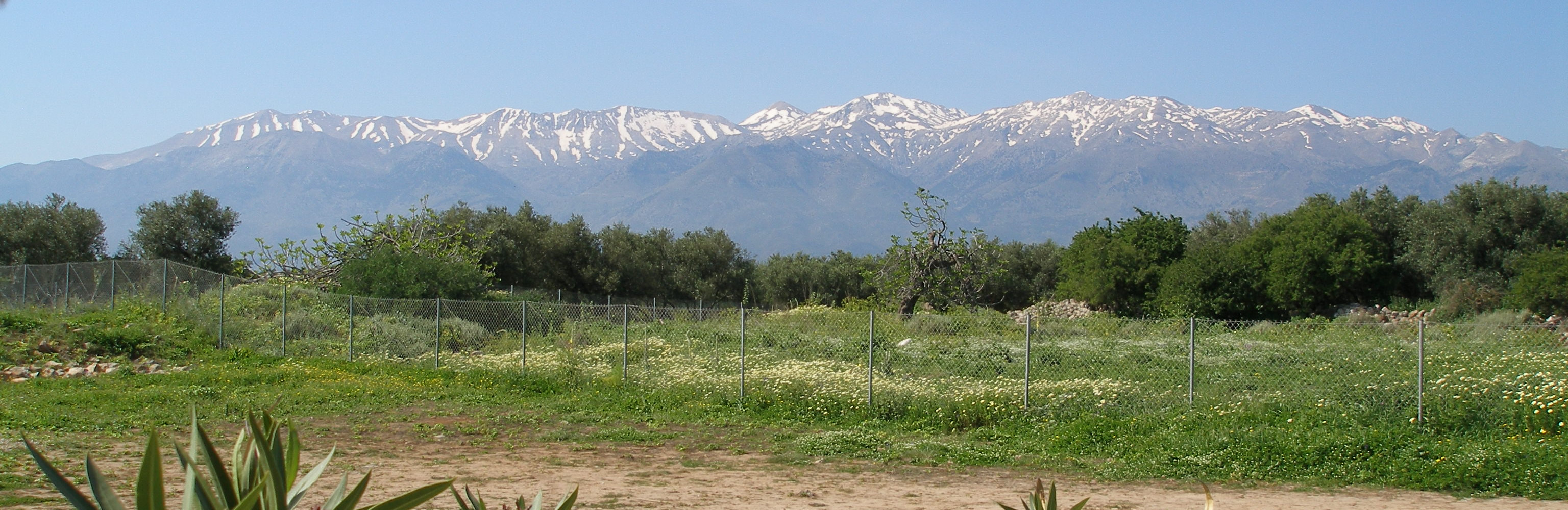 Lefka Ori (Greek: Λευκά Όρη, meaning "White Mountains"). Photo taken in April 2009 from the village Aptera to the south.